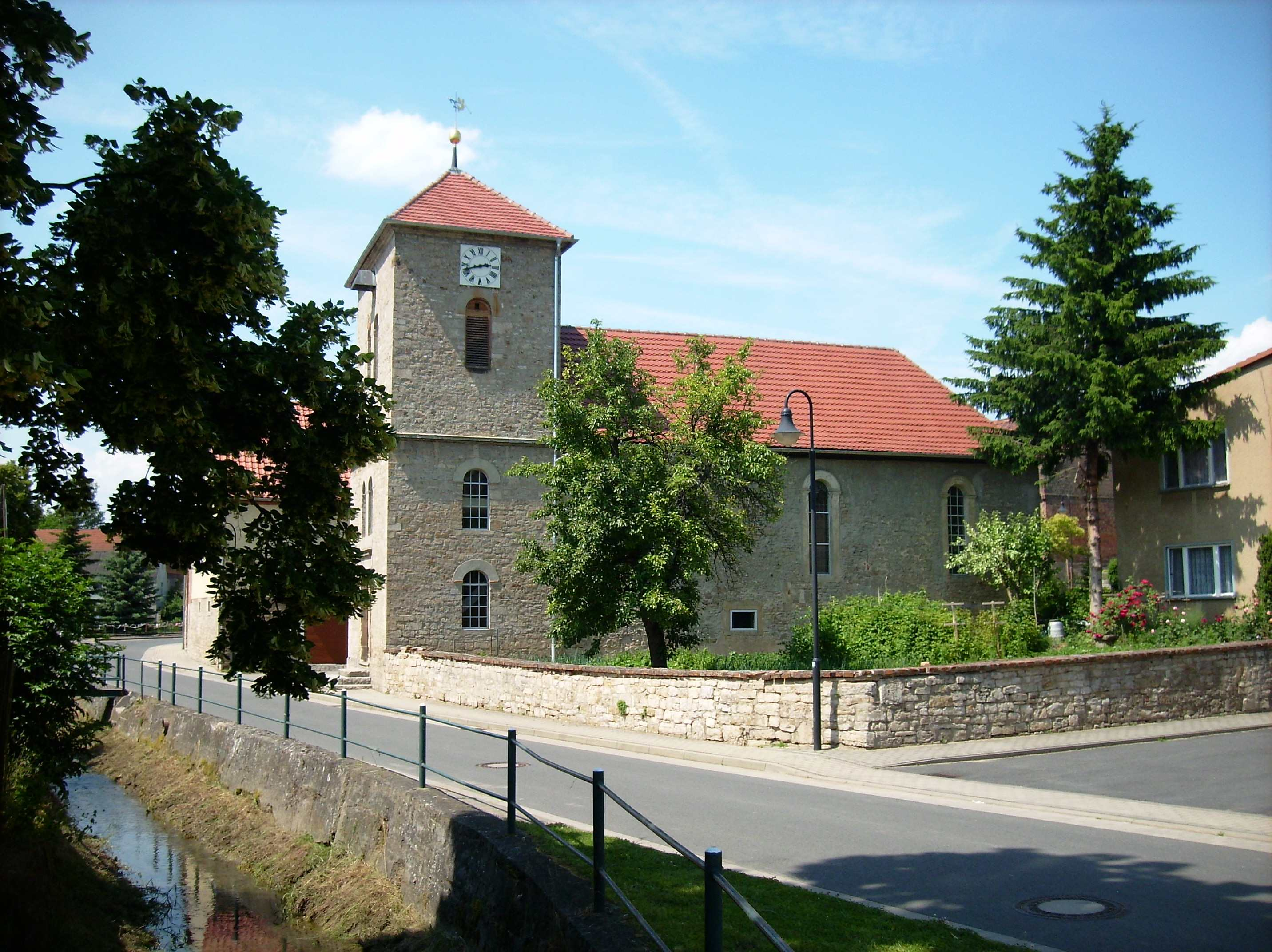 Rehehausen church (Lanitz-Hassel-Tal, district of Burgenlandkreis, Saxony-Anhalt)